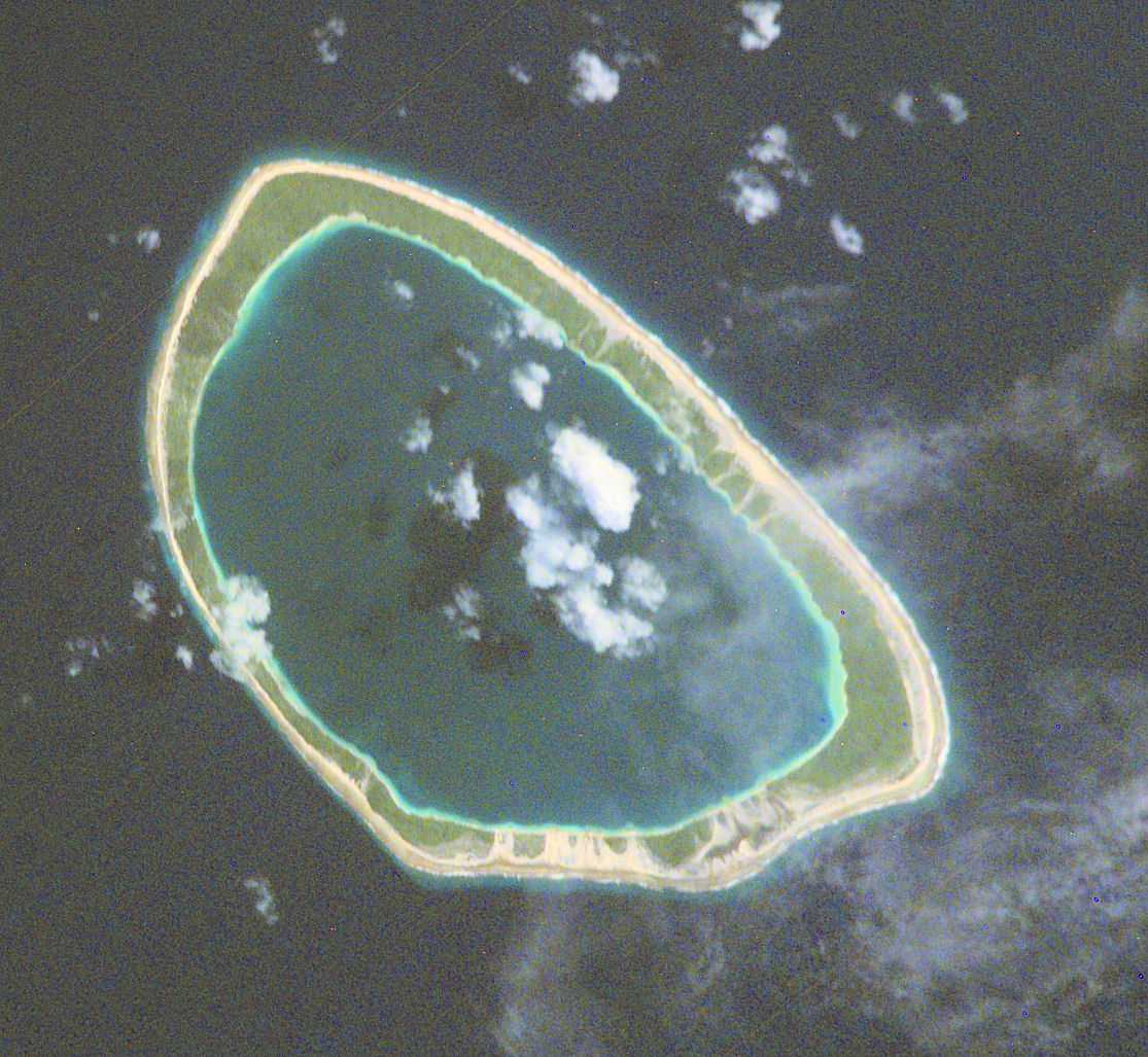 Atoll Taiaro (Tuamotu Archipelago, French Polynesia), from space.